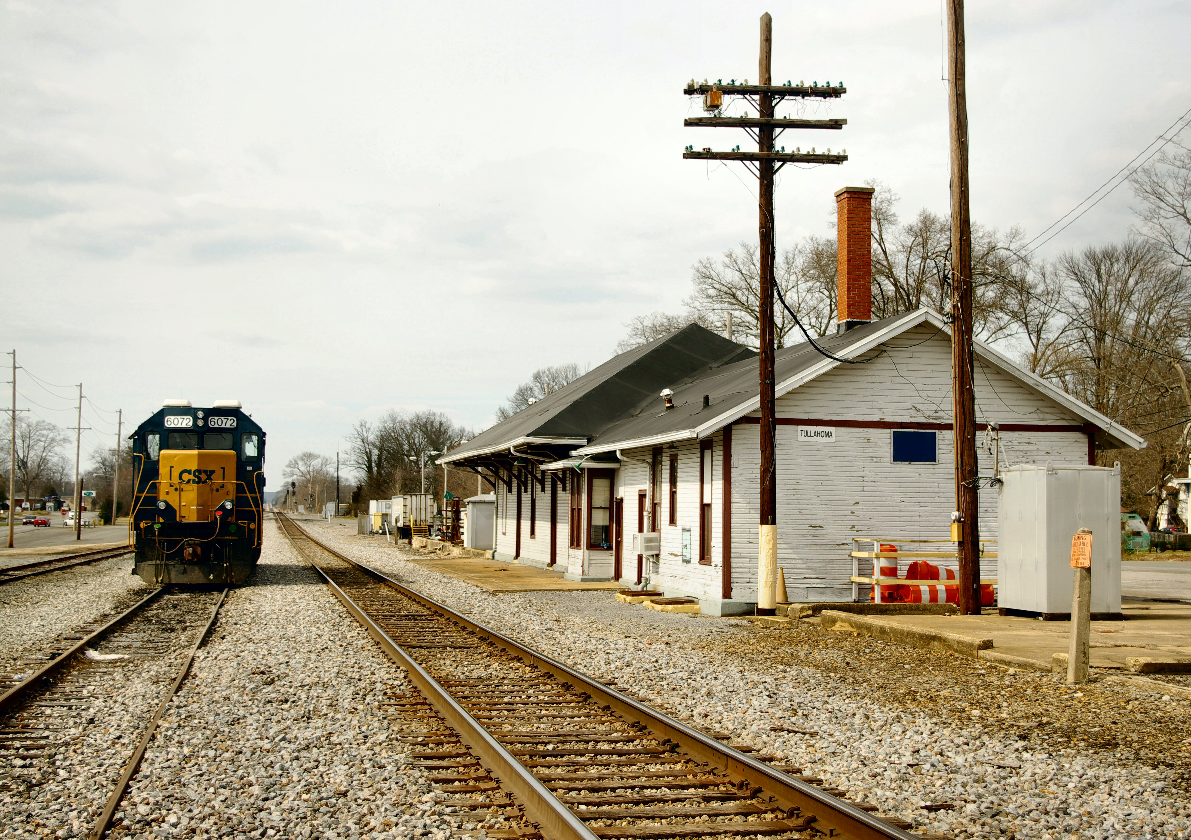 Depot and CSX engine in Tullahoma, Tennessee, United States